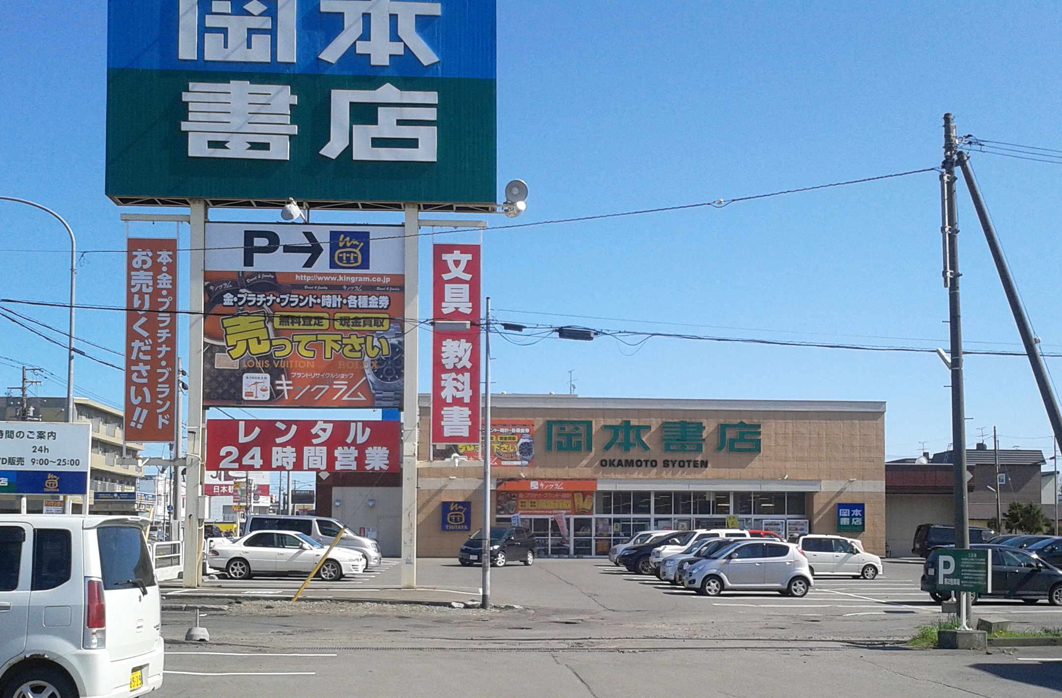 Okamoto Syoten and Tsutaya in Eniwa, Hokkaido